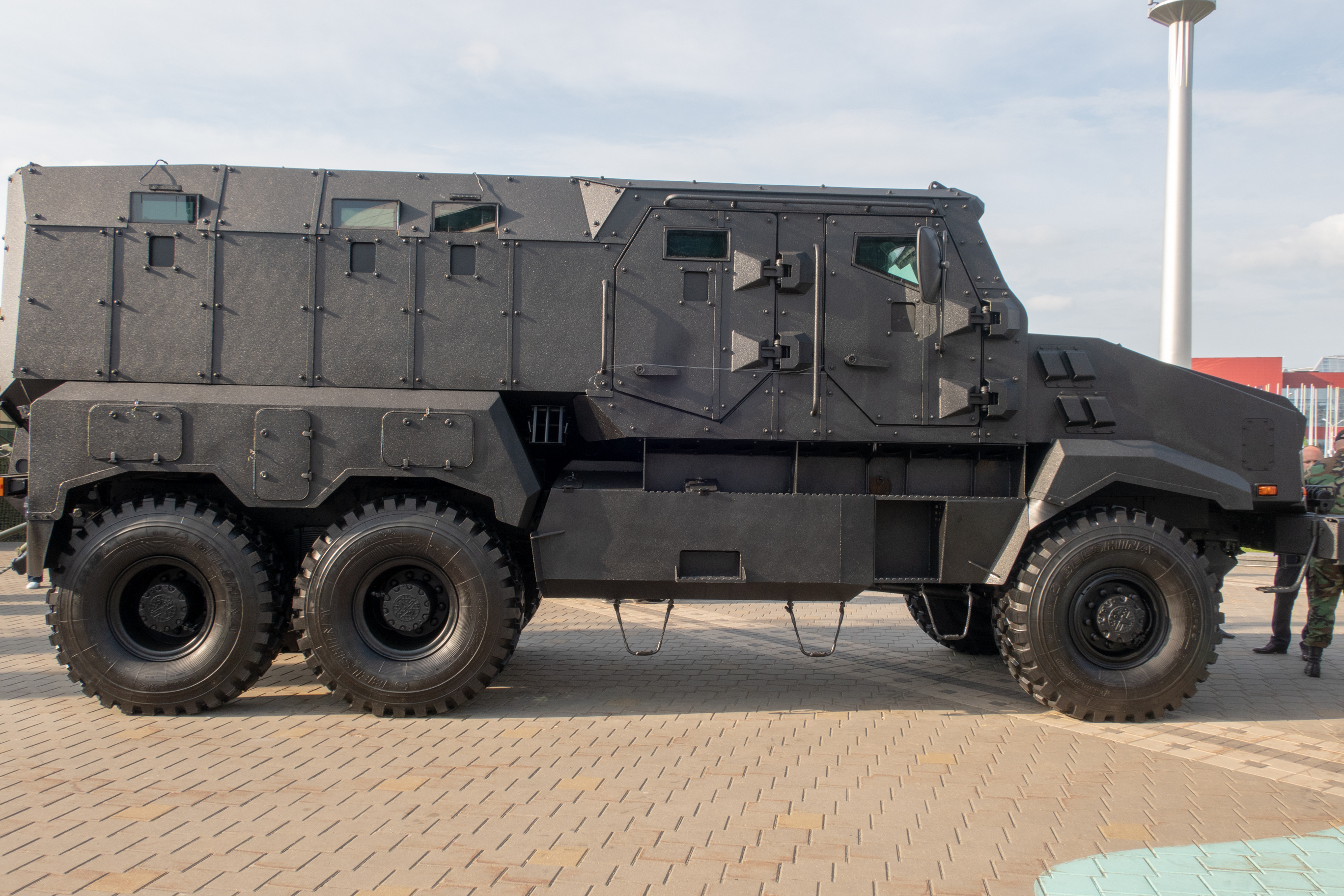 Milex-2019 arms and military machinery exhibition (Minsk, Belarus)